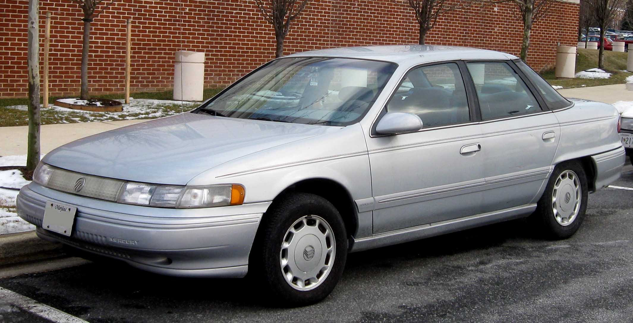 1994-1995 Mercury Sable photographed in College Park, Maryland, USA.